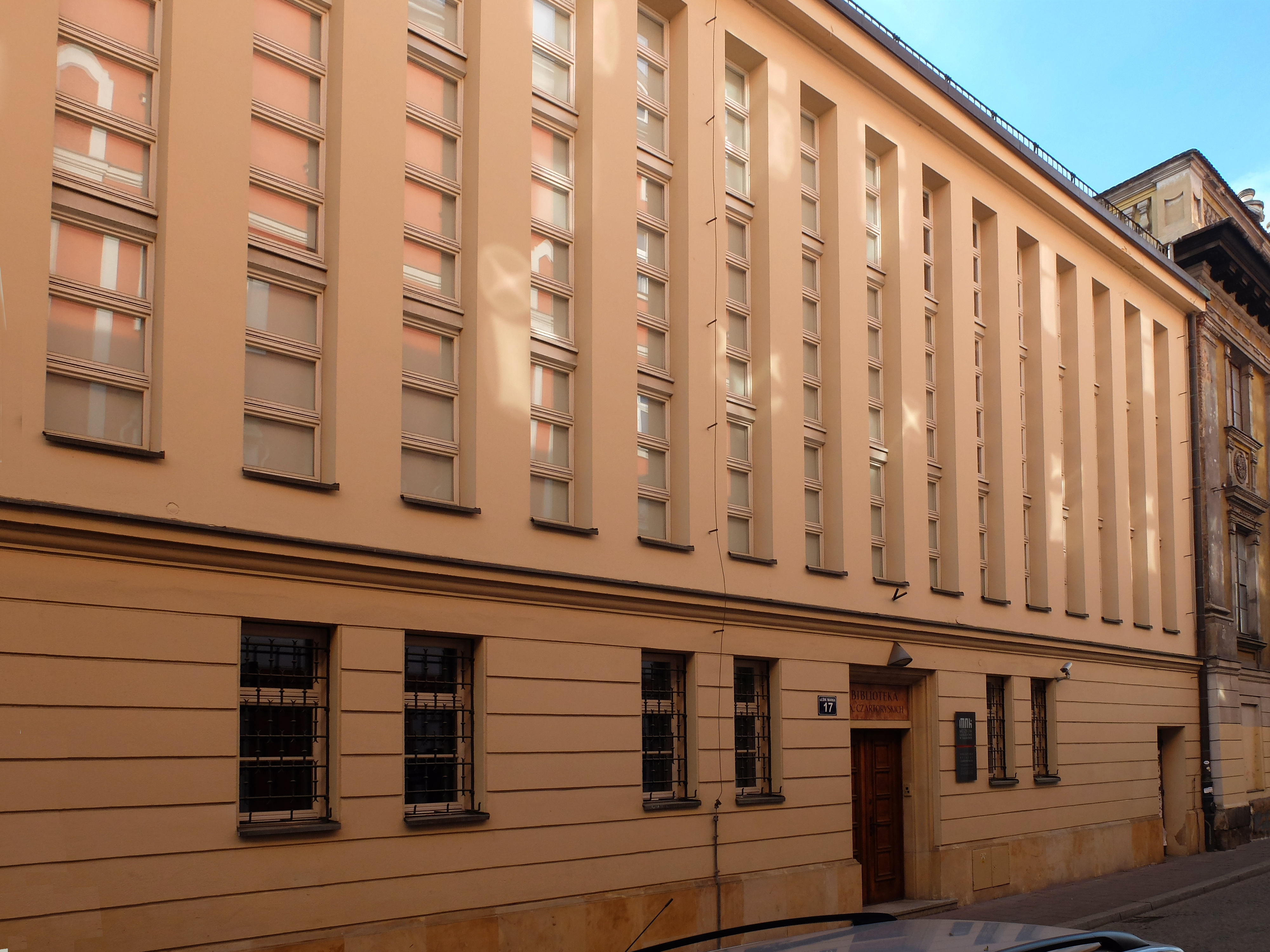 17 Świętego Marka Street in Kraków, Czartoryski Library, National Museum in Kraków